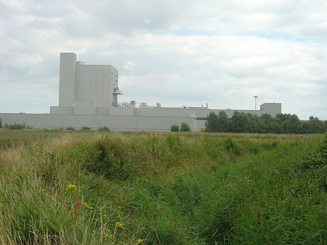 Overgrown watercourse and CIBA-Geigy plant NB This is the Lenzing fibres plant, formerley Courtaulds, not Ciba-Geigy The Humber shore between Grimsby and Immingham is a series of substantial chemical works interspersed with agricultural land.